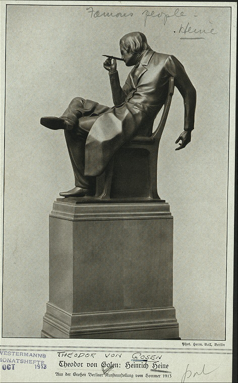 Little Monument (Zimmerdenkmal, 80 cm, 1898) to Heinrich Heine by Theodor von Gosen, published in 1913.